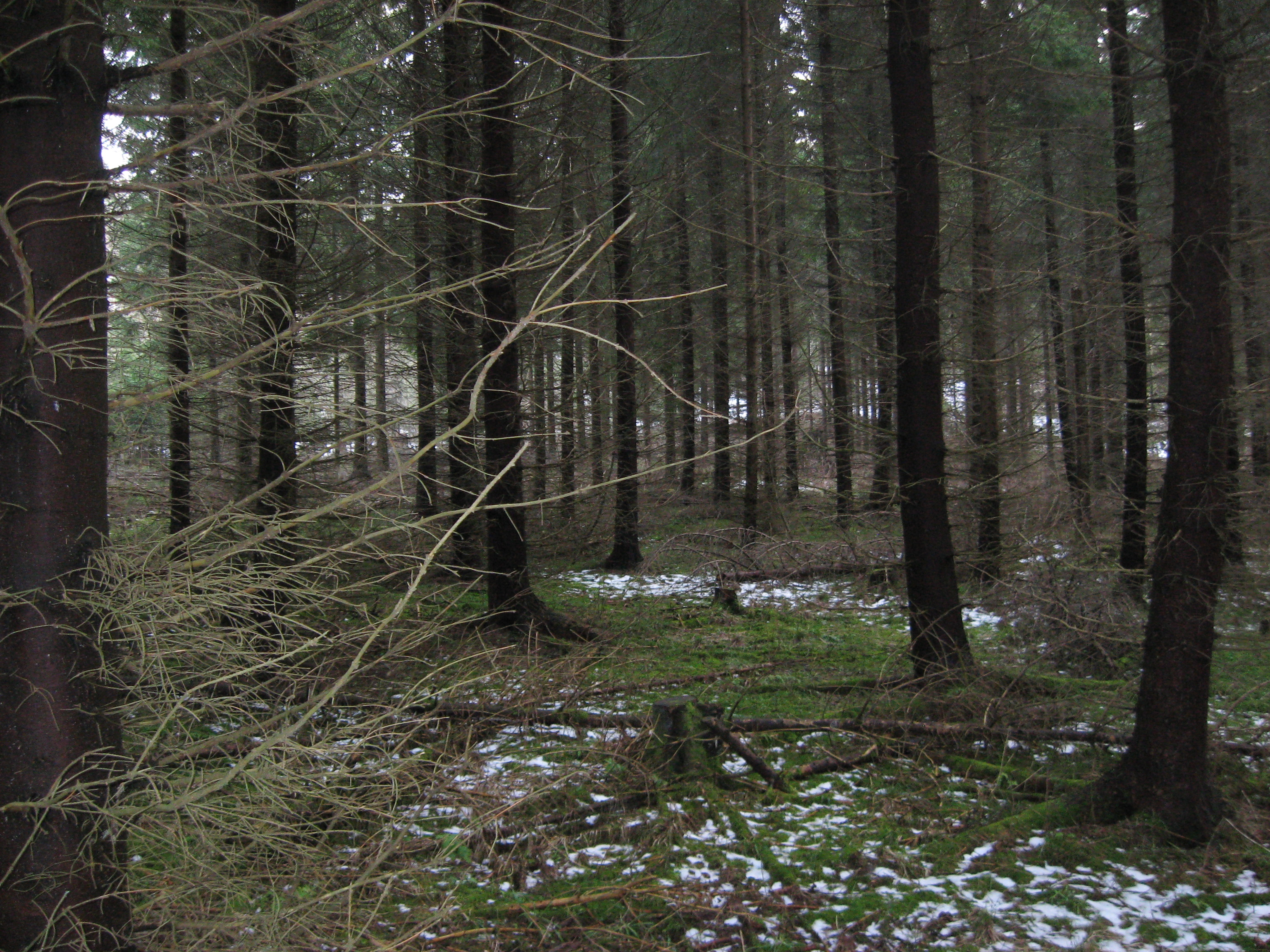 Norway spruces (Picea abies) in Porvoo, Finland